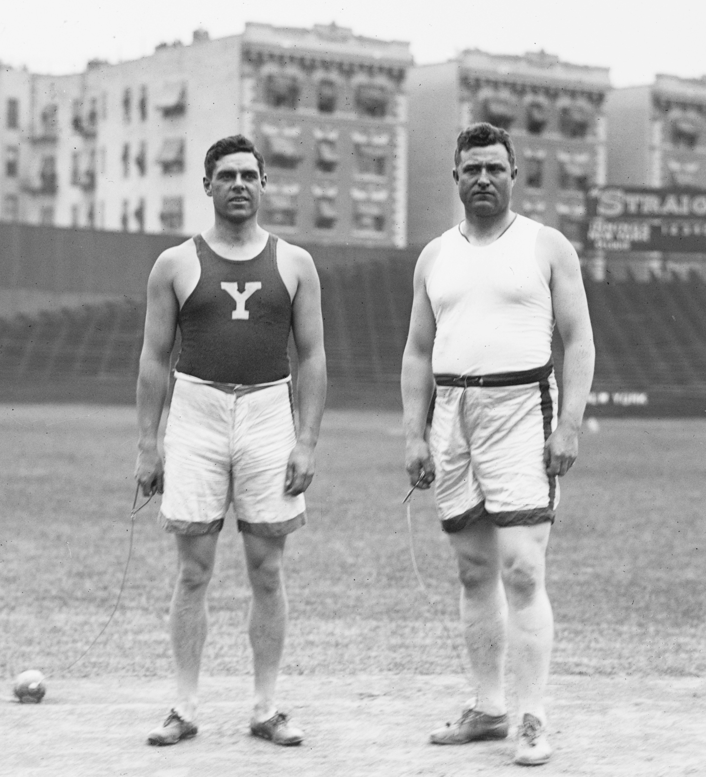 Clarence Childs and Simon Gillis Bain News Service,, publisher. C.C. Childs, Simon Gillis [between 1910 and 1915] 1 negative : glass ; 5 x 7 in. or smaller. Notes: Title from unverified data provided by the Bain News Service on the negatives or caption cards. Forms part of: George Grantham Bain Collection (Library of Congress). Format: Glass negatives. Repository: Library of Congress, Prints and Photographs Division, Washington, D.C. 20540 USA, General information about the Bain Collection is available at Persistent URL: Call Number: LC-B2- 2522-11